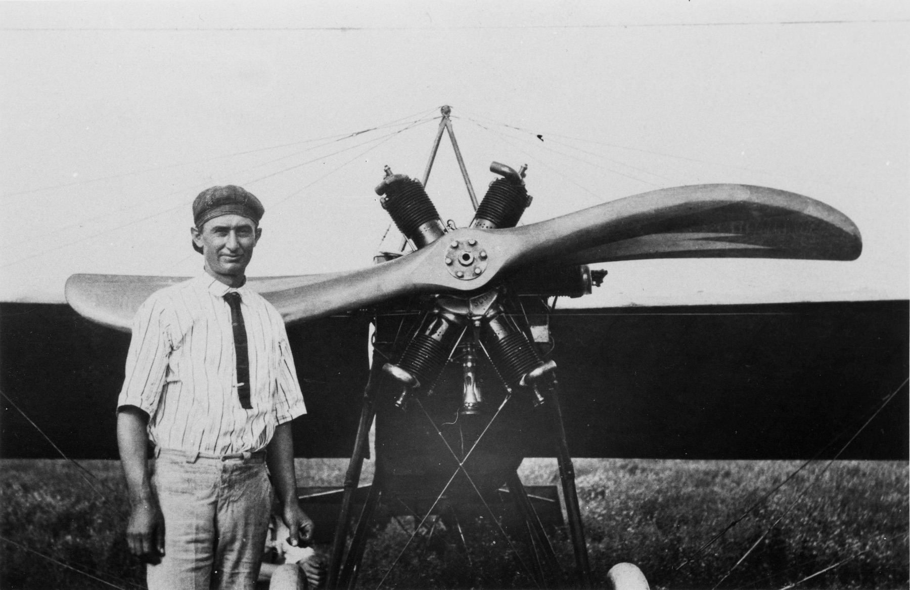 Clyde Vernon Cessna poses in front of plane.